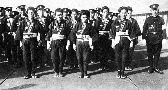 Shirosaki Village Shobogumi female members